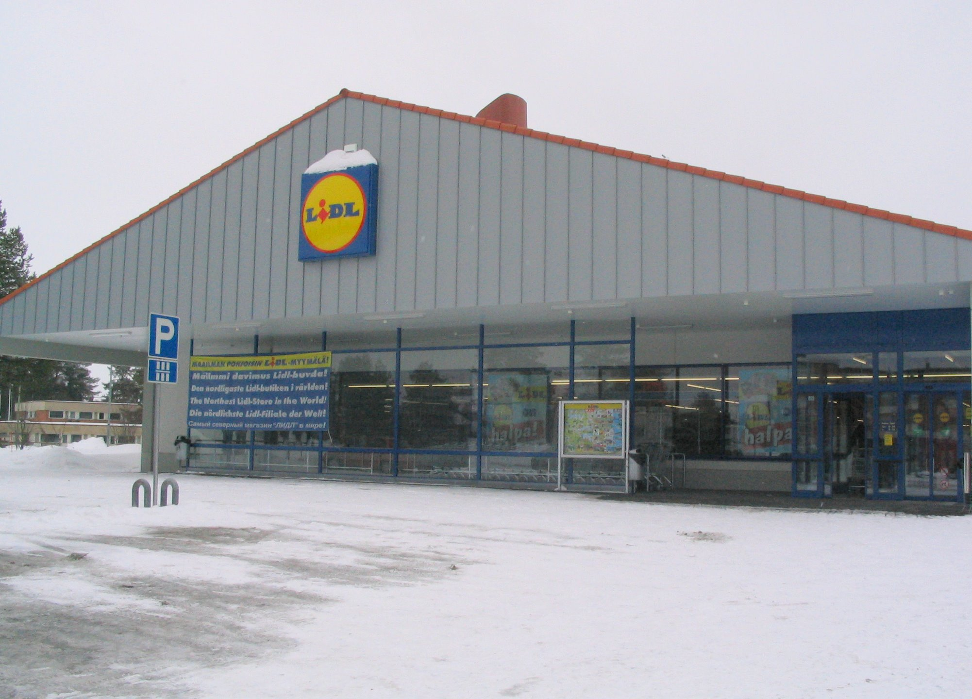 Lidl Supermarket in Sodankylä, Finland.